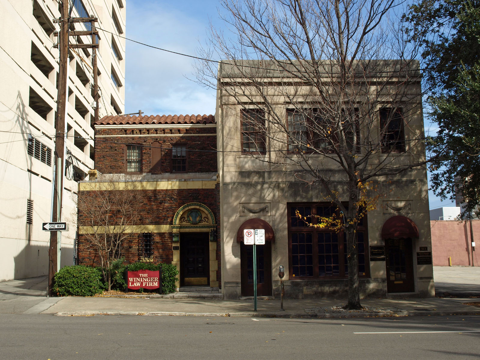 The Whilldin Building in Birmingham, Alabama, listed on the National Register of Historic Places.